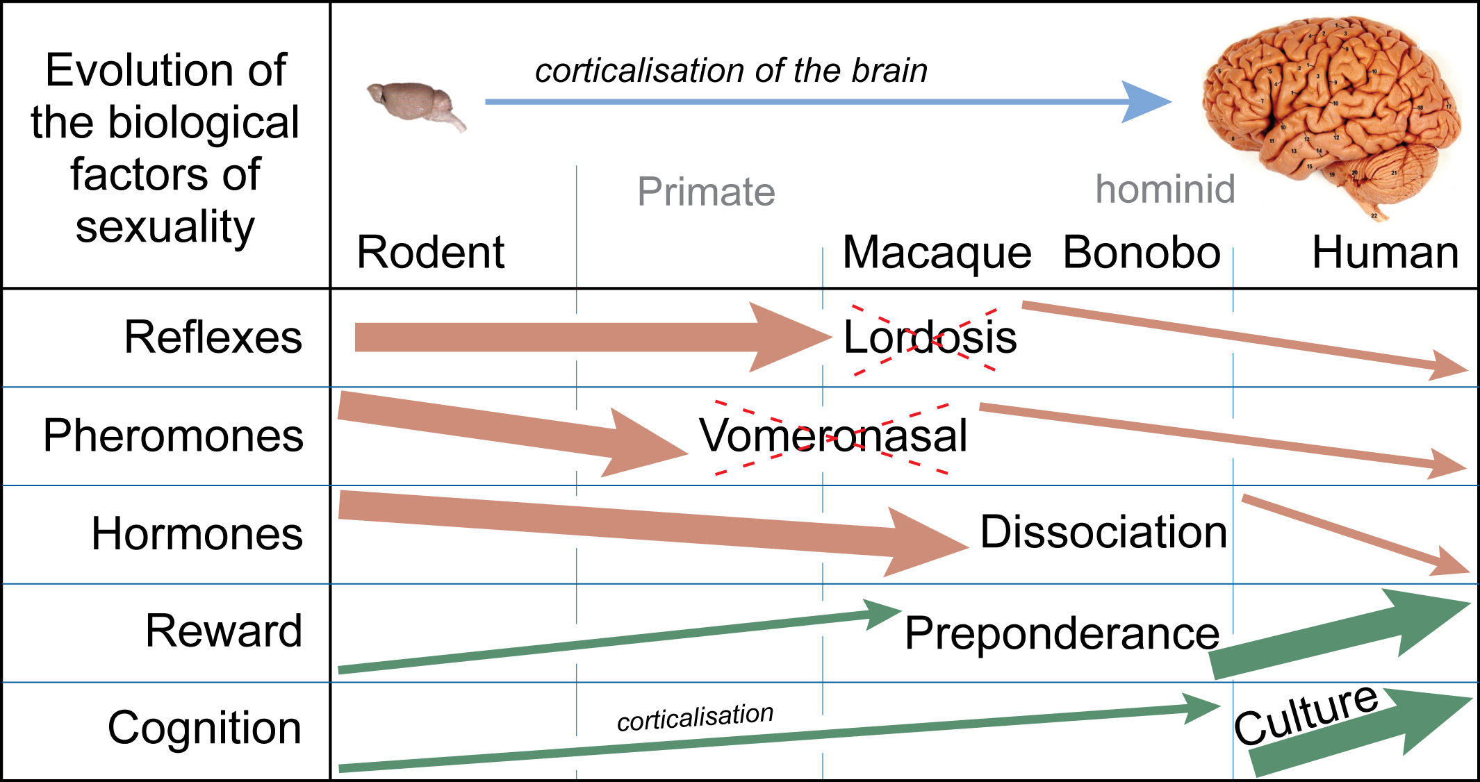 Evolution of the main neurobiological factors that control the sexual behavior of mammals. Sexual reflexes, such as the motor reflex of lordosis, become secondary. In particular, lordosis behavior, which is a motor reflex complex and essential to carry out copulation in non-primate mammals (rodents, canines, bovids ...), is apparently no longer functional in women. Sexual stimuli on women do not trigger any more neither immobilization nor the reflex position of lordosis. On the level of olfactory systems, the vomeronasal organ is altered in hominids and 90% of the pheromone receptor genes become pseudogenes in humans. Concerning hormonal control, sexual activities are gradually dissociated from hormonal cycles. Human can have sex anytime during the year and hormonal cycles. On the contrary, the importance of rewards / reinforcements and cognition became major. Especially in humans, the extensive development of the neocortex allows the emergence of culture, which has a major influence on behavior. For all these reasons, the dynamics of sexual behavior was modified. Diagram adapted from: Agmo A. Functional and dysfunctional sexual behavior. Elsevier, 2007 --- Georgiadis J.R., Kringelbach M.L., Pfaus J.G. Sex for fun: a synthesis of human and animal neurobiology. Nat. Rev. Urol., 9(9):486-498, 2012 --- Nei M., Niimura Y., Nozawa M. The evolution of animal chemosensory receptor gene repertoires: roles of chance and necessity. Nat. Rev. Genet., 9(12):951-963, 2008 --- Wunsch S. Comprendre les origines de la sexualité humaine. Neurosciences, éthologie, anthropologie. L'Esprit du Temps, 2014. --- Zhang J., Webb D.M. Evolutionary deterioration of the vomeronasal pheromone transduction pathway in catarrhine primates. Proceedings of the National Academy of Sciences of the United States of America, 100(14):8337-8341, 2003.